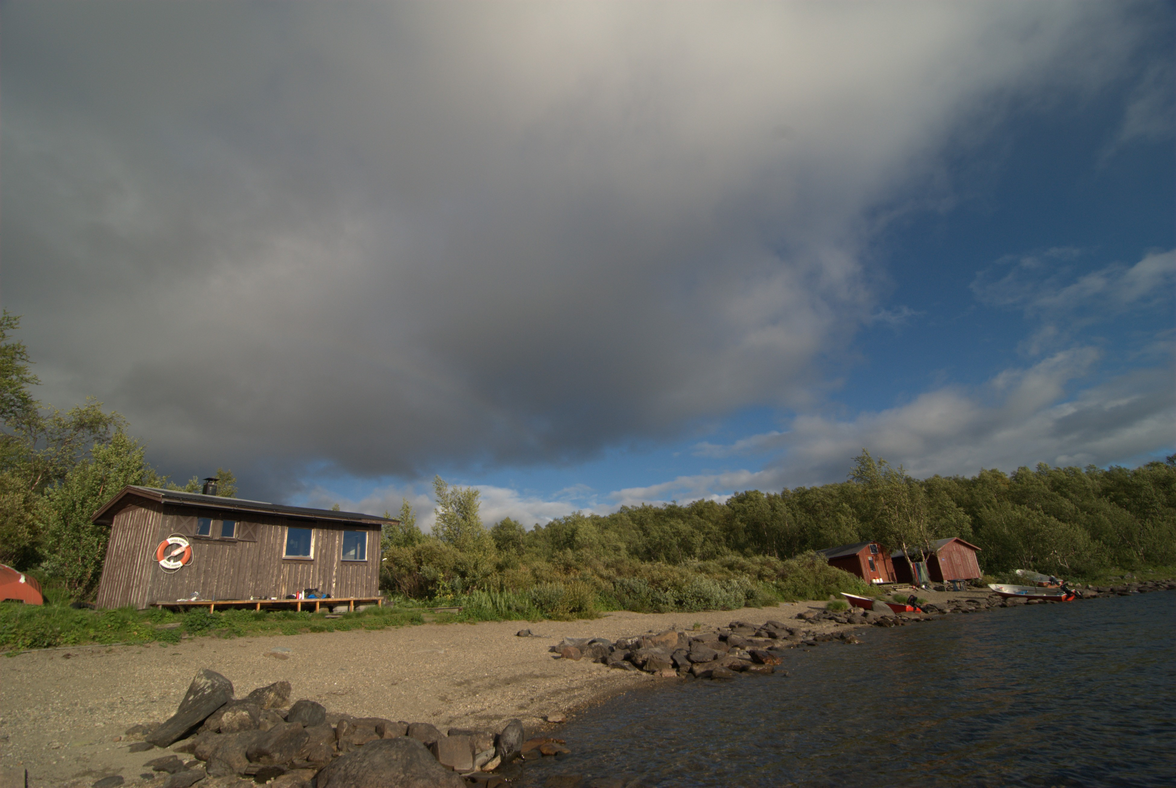 Wooden building containing a sauna along the Kungsleden trail, on the shores of the northern part of Tärnasjön lake.